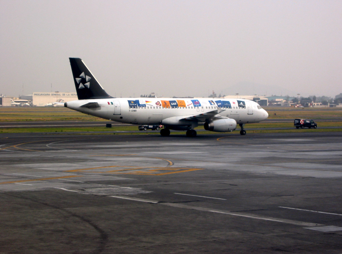 A Mexicana A320-231 registered F-OHMH with Star Alliance special livery (2nd version) on the taxiway of Aeropuerto Internacional de la Ciudad de México.